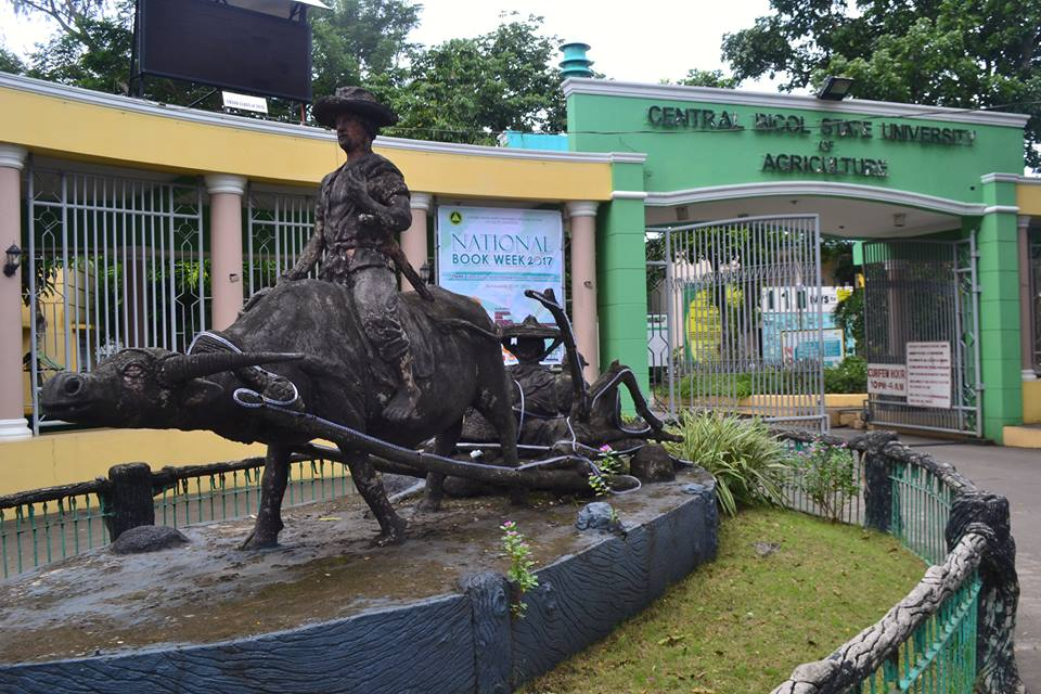 "Morning Way to the Fields" Monument of the Central Bicol State University of Agriculture - Main Campus